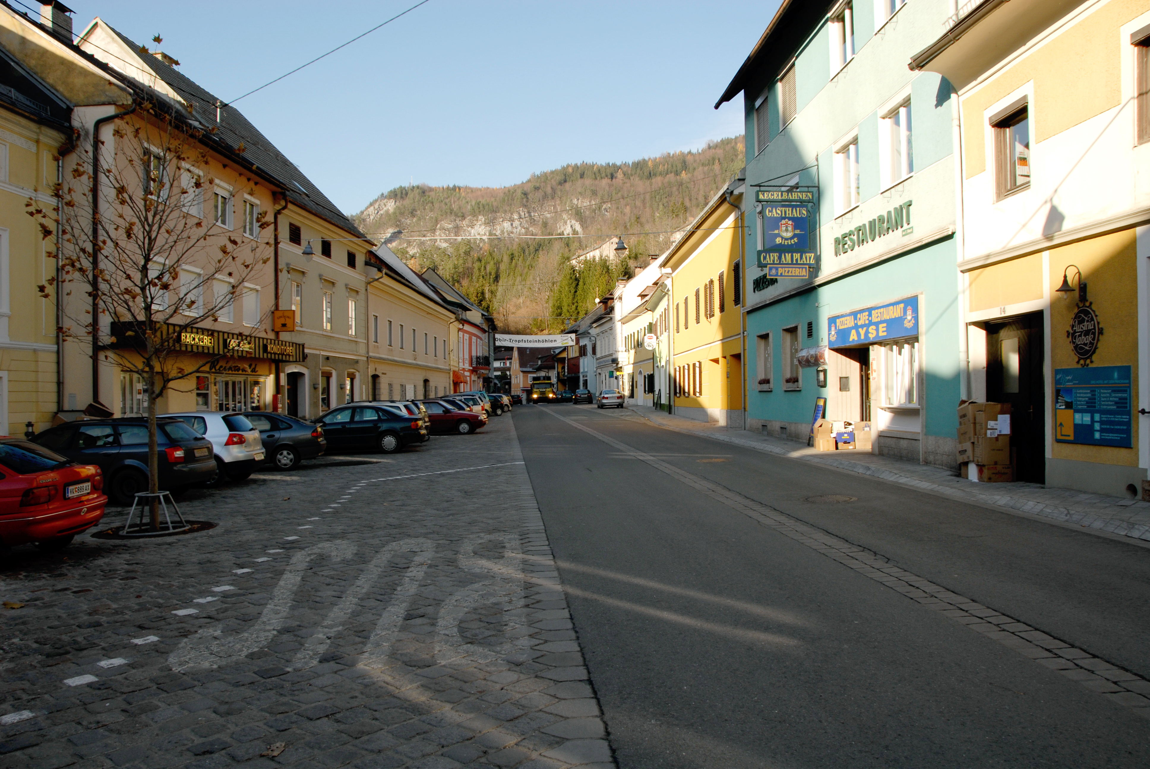 Main square of Bad Eisenkappel, situated in the district Voelkermarkt, Carinthia, Austria